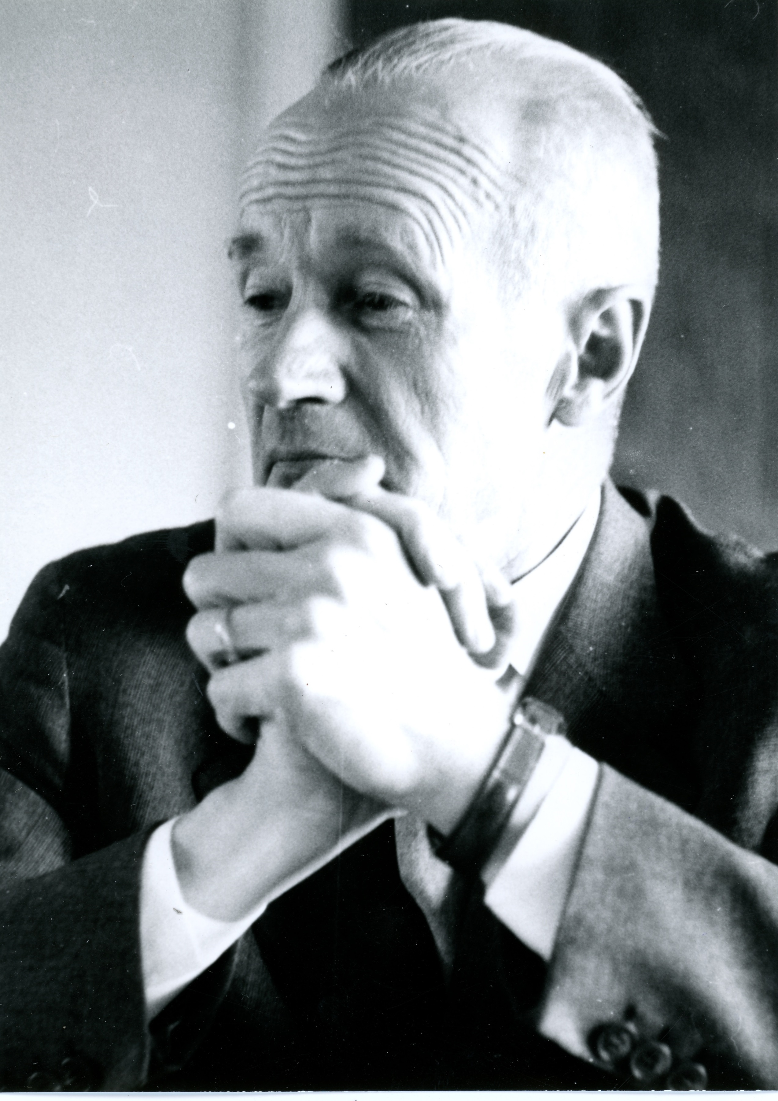 Archive couselor Martti Kerkkonen at the Archive Days on 25 May, 1967.